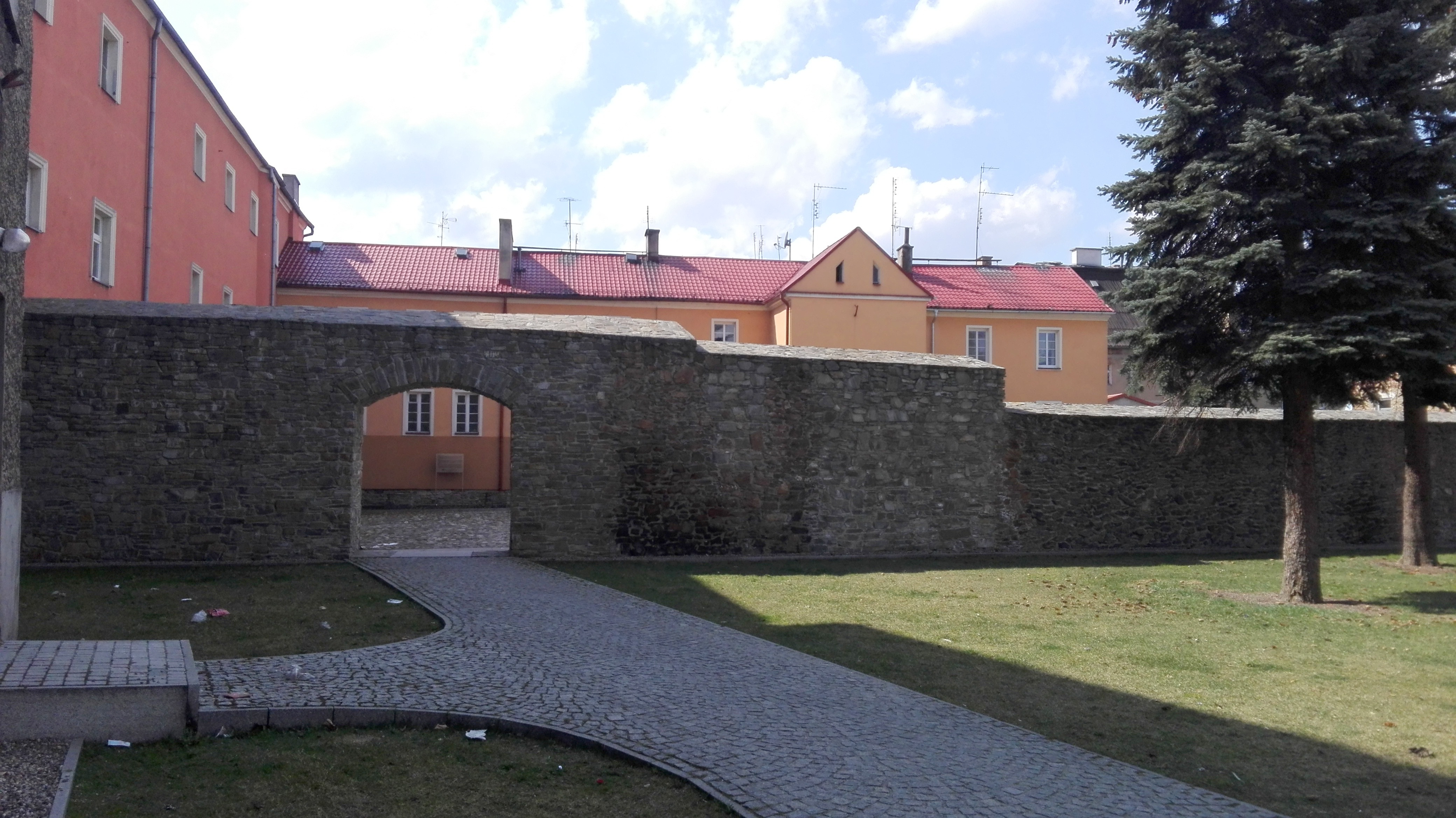 Marii Skłodowskiej-Curie Street in Głuchołazy